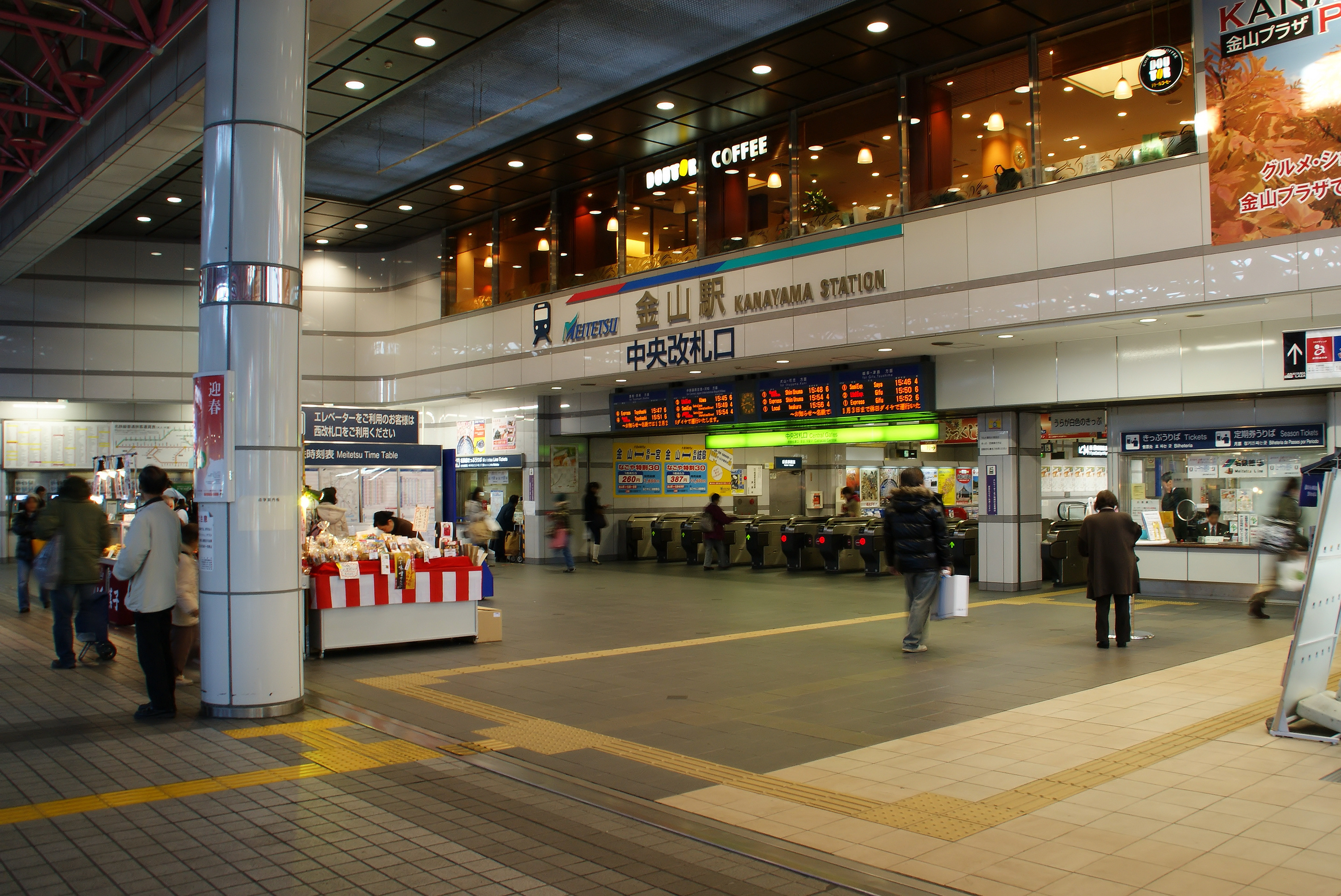 Nagoya Railroad, Ticket Gate of Kanayama Station.(Atsuta Ward, Nagoya City, Aichi Prefecture, Japan)